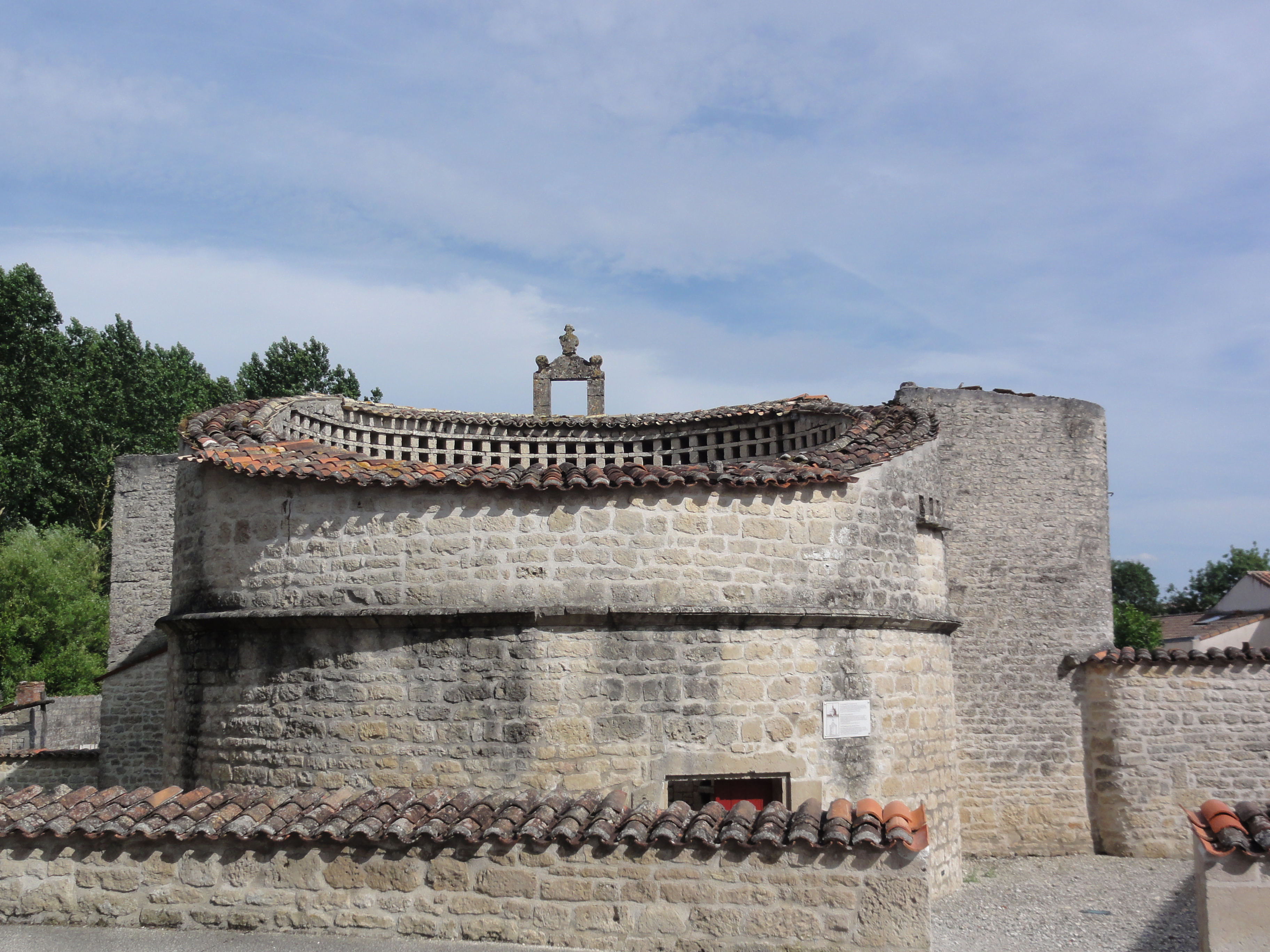 Aulnay-de-Saintonge, colombier